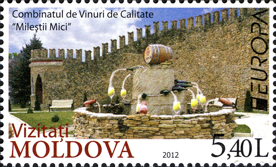 Stamps of Moldova